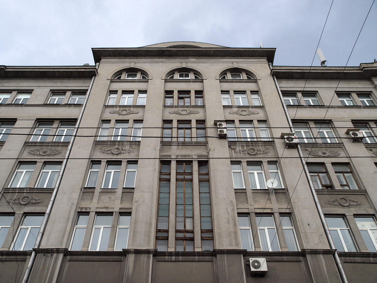 Maroseyka St, Moscow.